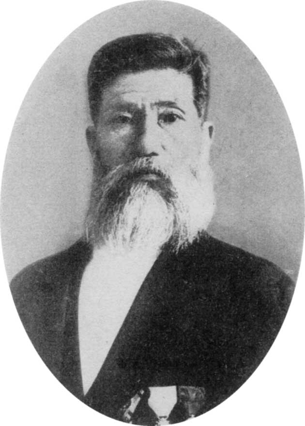 Imamura Yūrin.